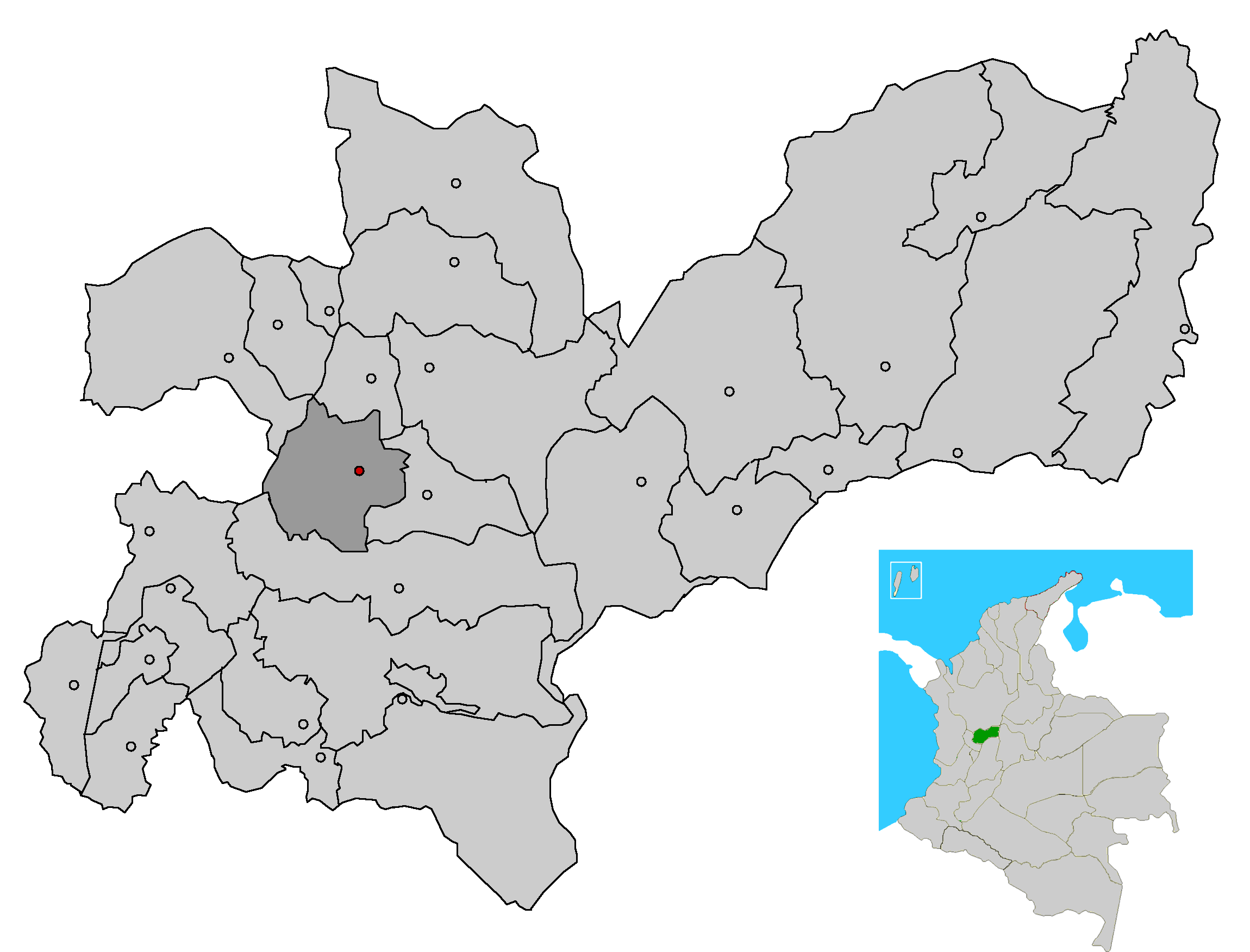 Image depicting map location of the town and municipality of Filadelfia in Caldas Department, Colombia